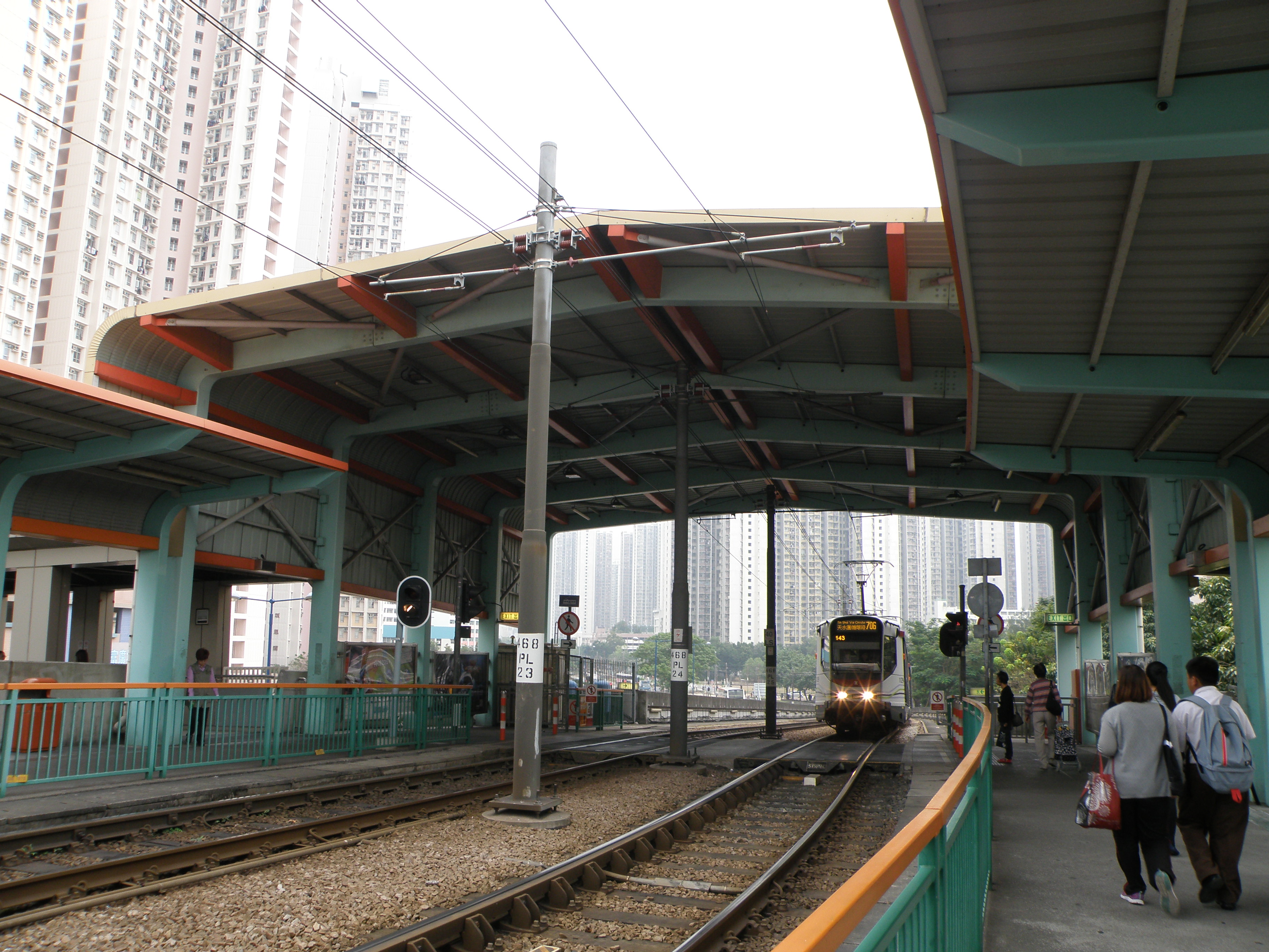 Light Rail Route 706 in Tin Shui Wai, Hong Kong.